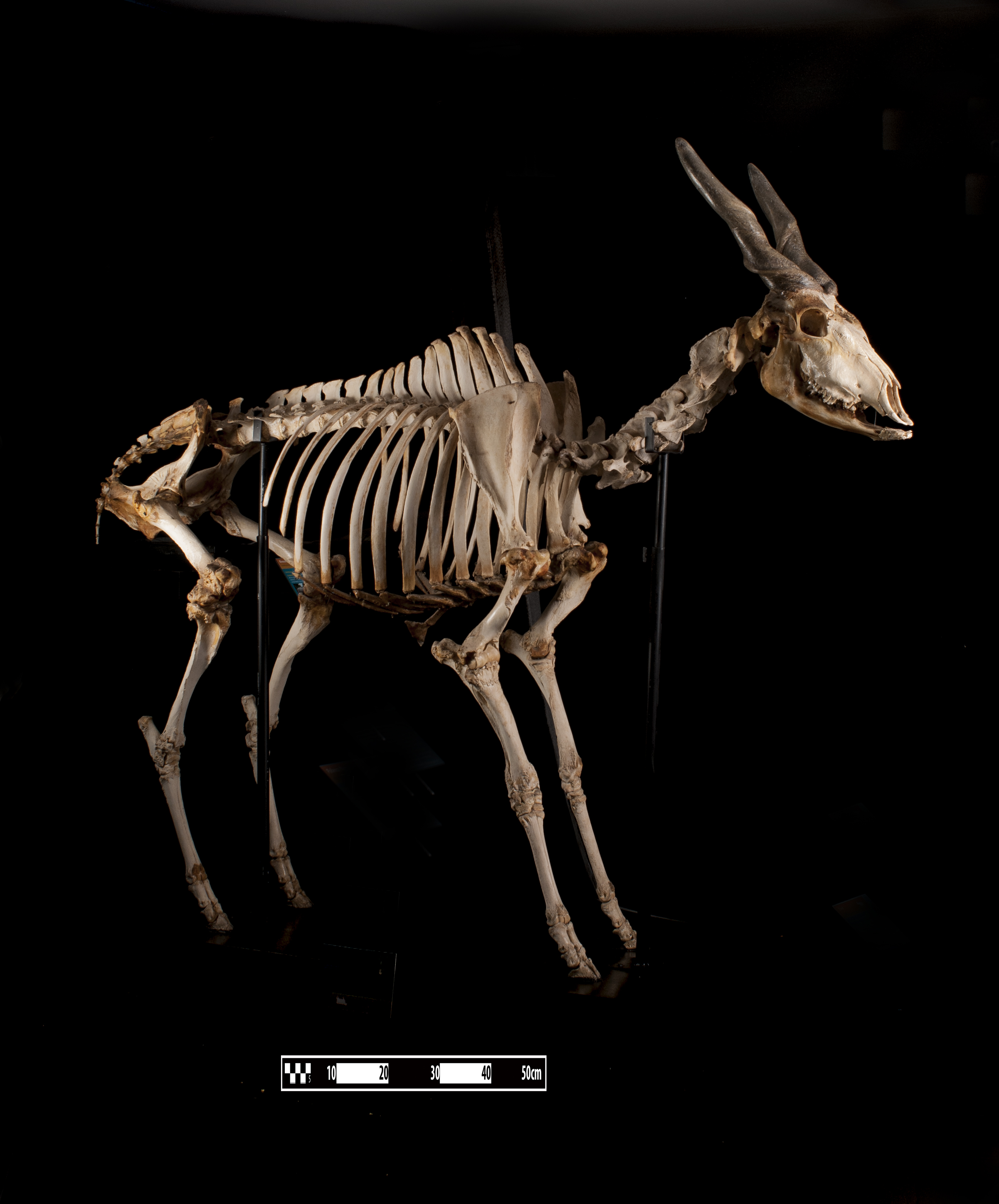 Eland skeleton. “Taurotragus oryx. Specimen of Eland skeleton prepared by the bone maceration technique and on display at the Museum of Veterinary Anatomy, FMVZ USP.